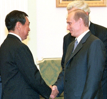 THE KREMLIN, MOSCOW. President Vladimir Putin and Japanese Foreign Minister Yohei Kono.